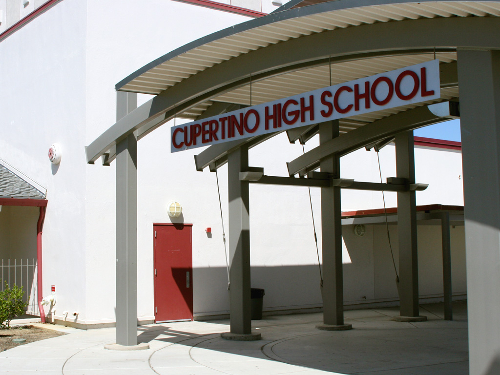 Cupertino High School entrance. Photograph taken by Bahn Mi of the Schoolwatch Programme and released freely under the Creative Commons Attribution ShareAlike 2.0 license.